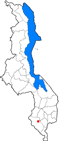 Chikwawa, Malawi Location Map; created with the GIMP. Made by User:Acntx.